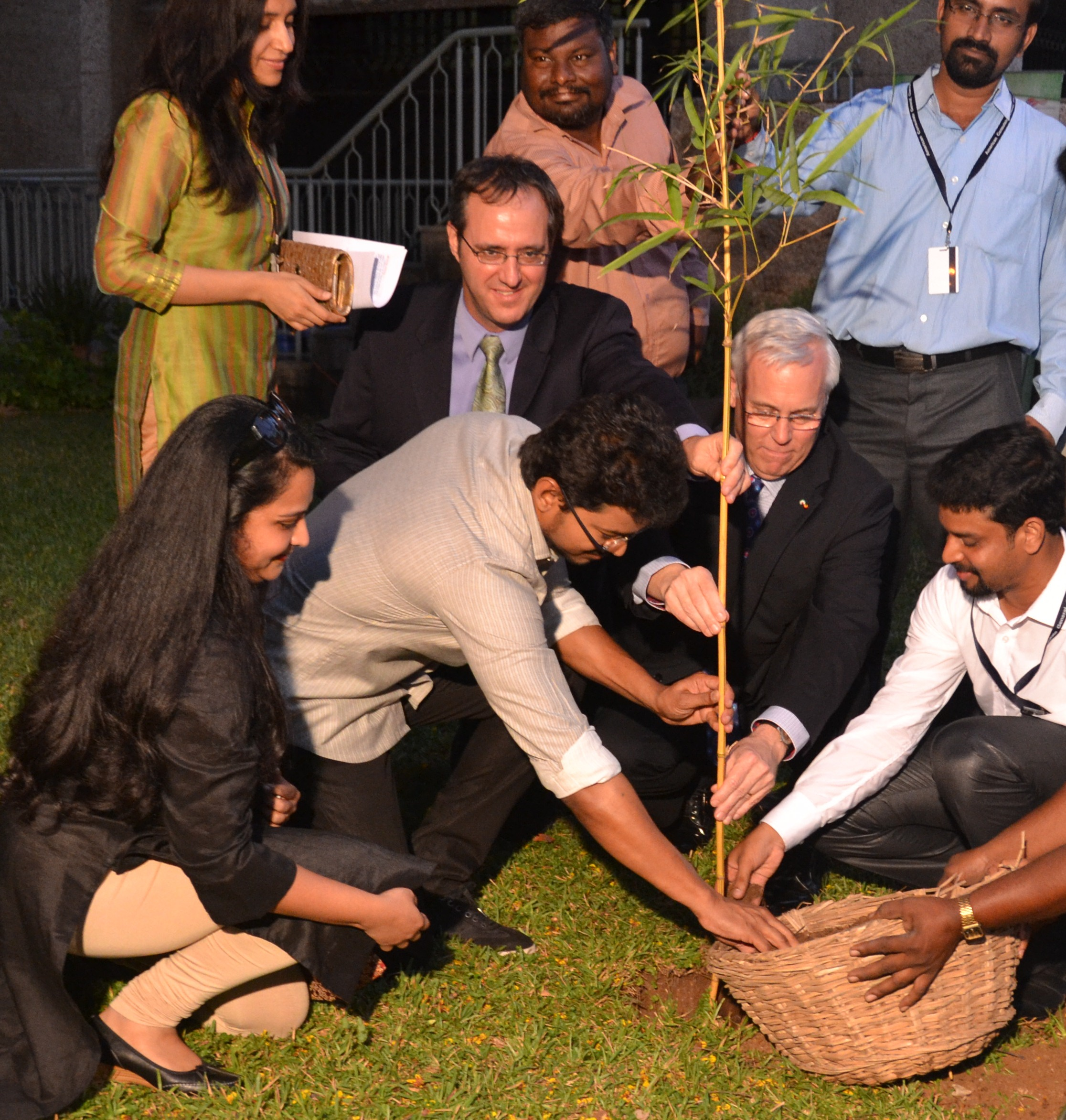 Tamil Film actor Vijay Celebrating World Environment Day at the U.S. Consulate Chennai Tamil Film actor Vijay planted a tree in honor of World Environment Day at the U.S. Consulate